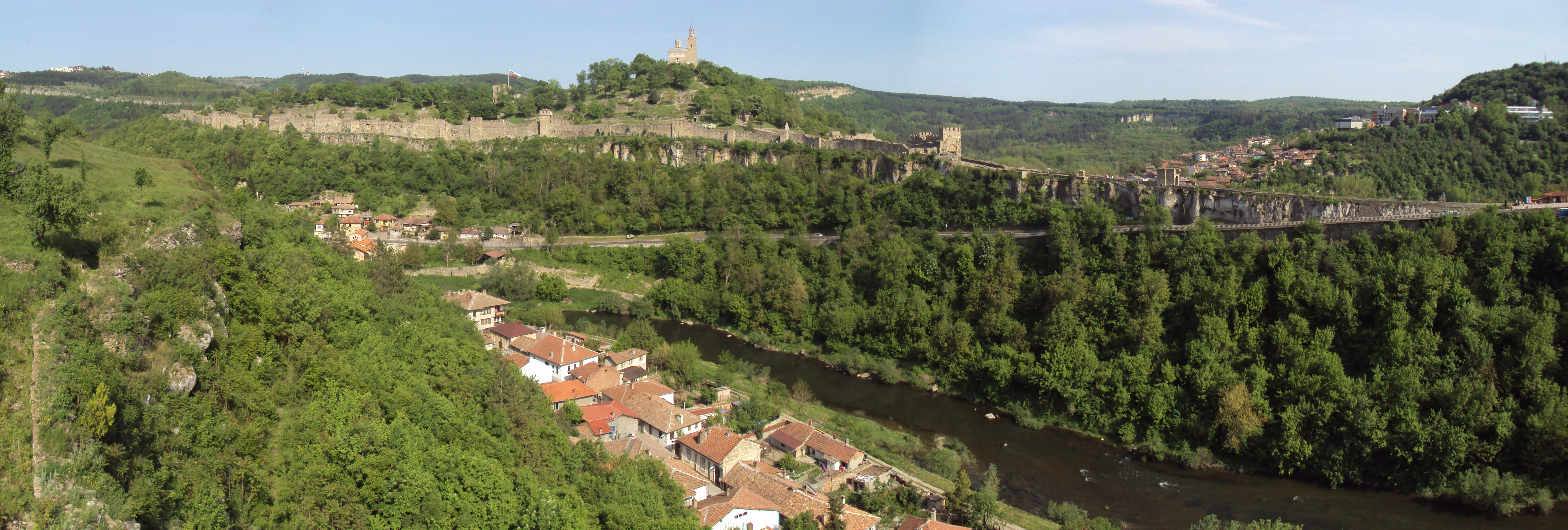 Trapezitca, Veliko Turnovo